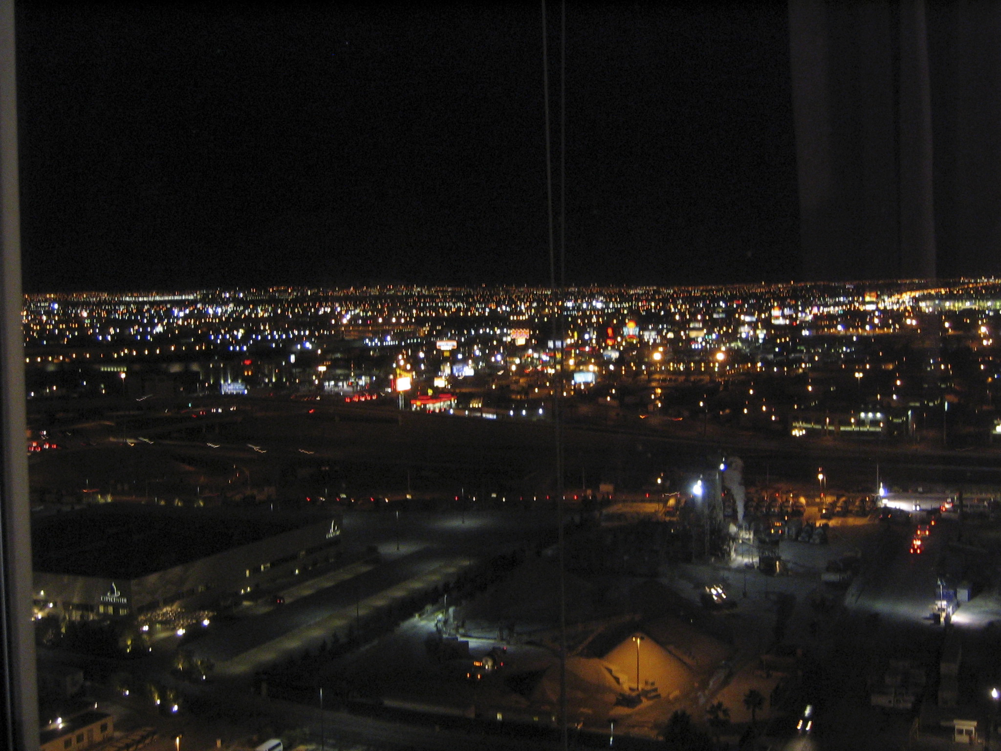 Spring break 08-11